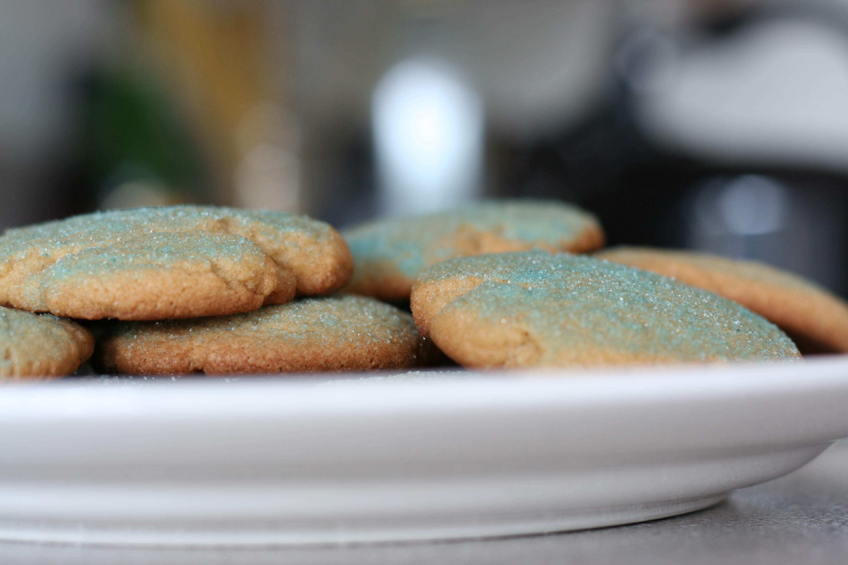 when i told mom i had made blue sugar cookies she said, "of course." i think i have a thing for dying food blue. it's probably because one year, when i was little, my mom wouldn't let me have blue frosting on my birthday cake (she said blue is the color of mold, but i was allowed to have green frosting which i argued is way closer to the color of mold).